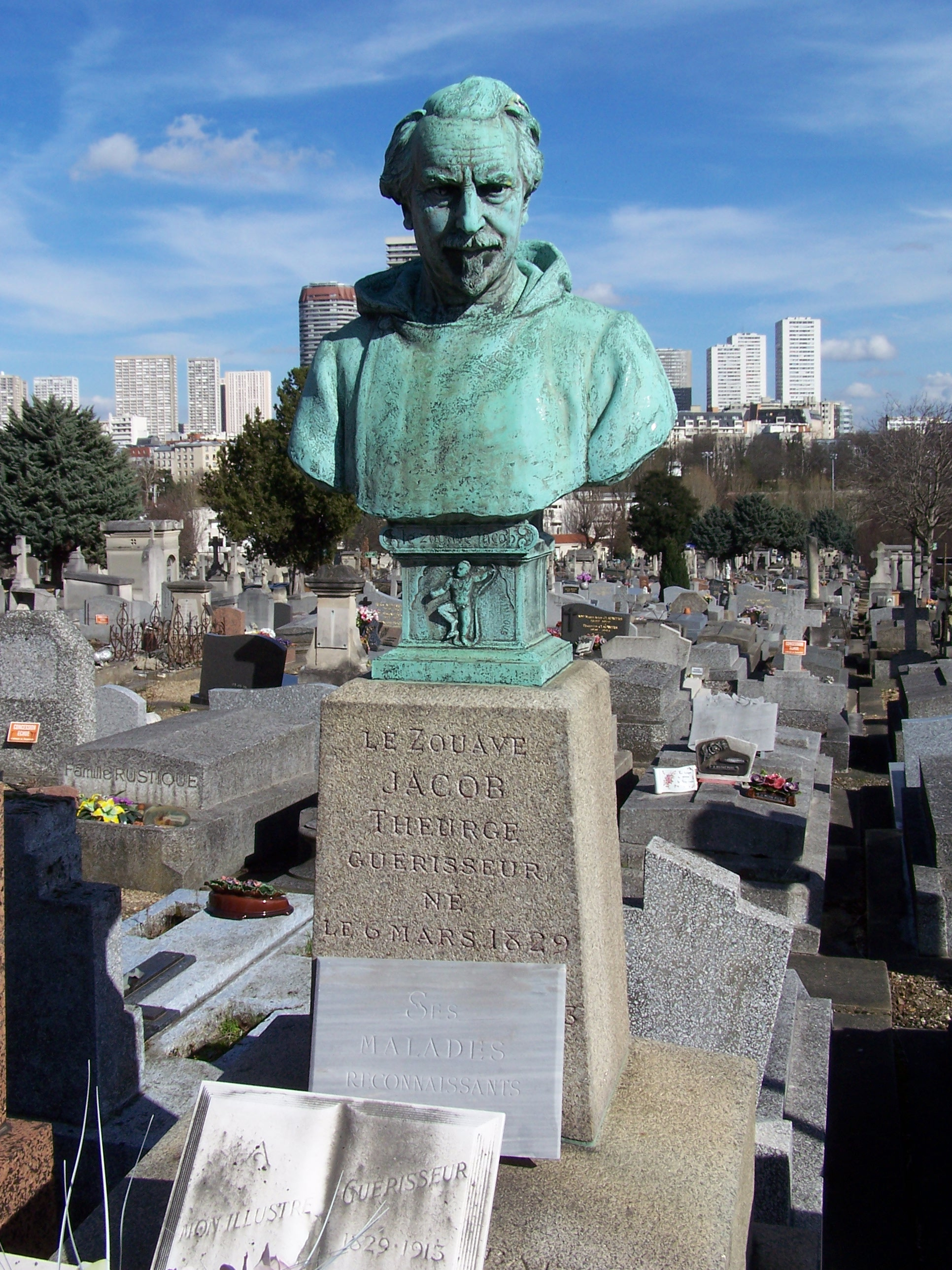 Statue de la tombe du Zouave Jacob Theurge, guérisseur, au cimétière de gentilly